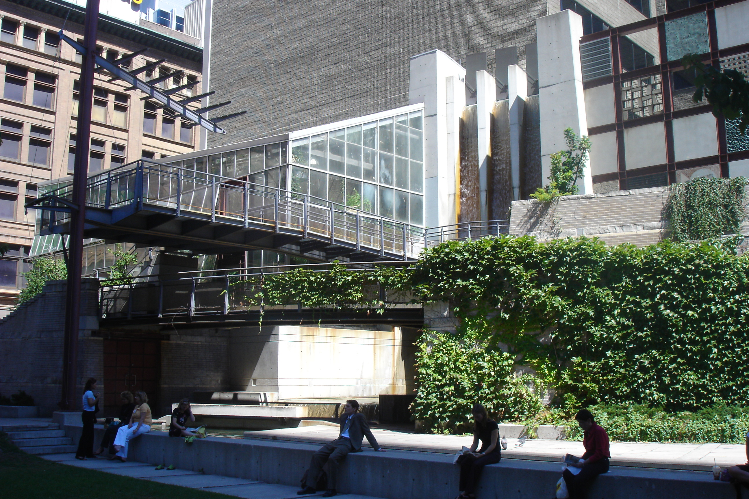 Picture of the Cloud Gardens in Toronto, looking northeast from just southwest of center. The greenhouse is visible in the upper left of the image, the waterfall to its right, and finally the outdoor artwork in the upper right.